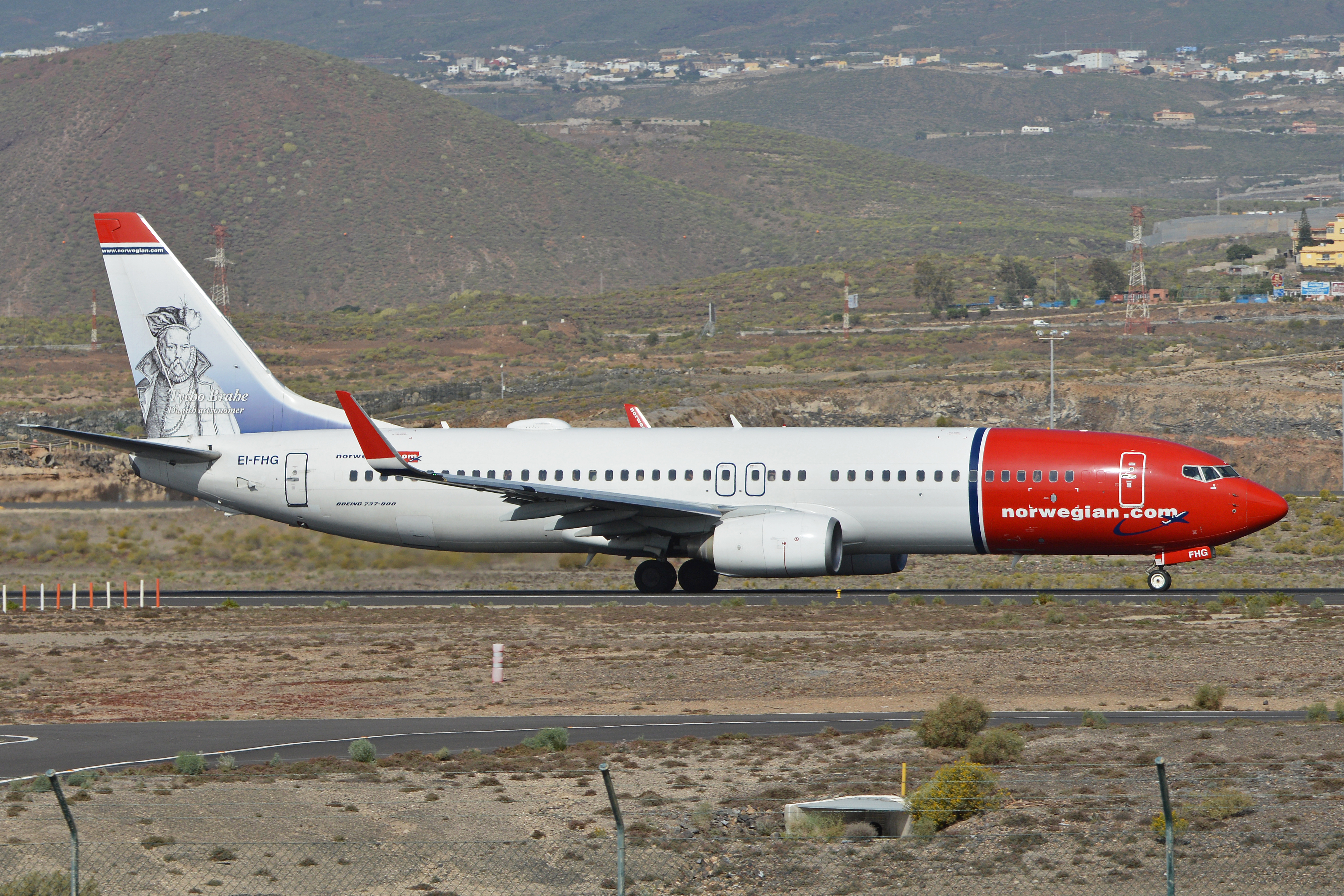 c/n 37884, l/n 3223. Built 2010. Originally registered as LN-NOJ. Departing on flight IBK2435 to London Gatwick. Tenerife South Airport, Tenerife. 17-1-2016